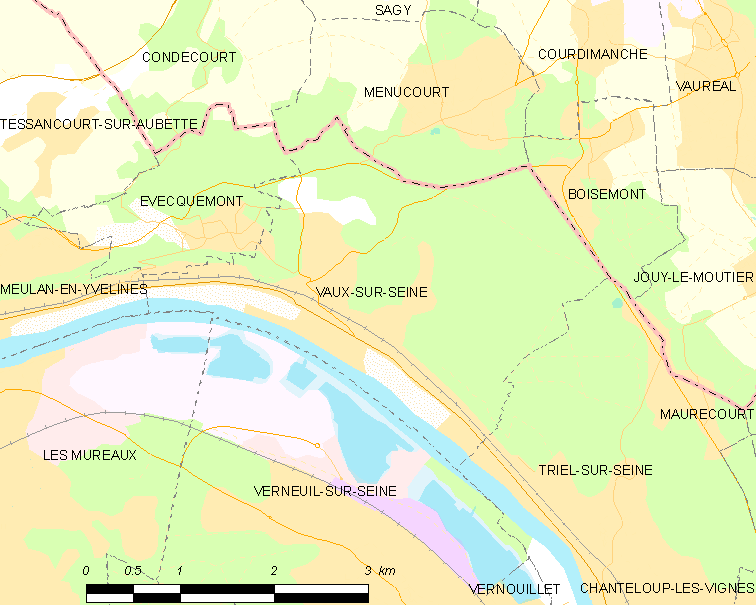 Map of French municipality Vaux-sur-Seine